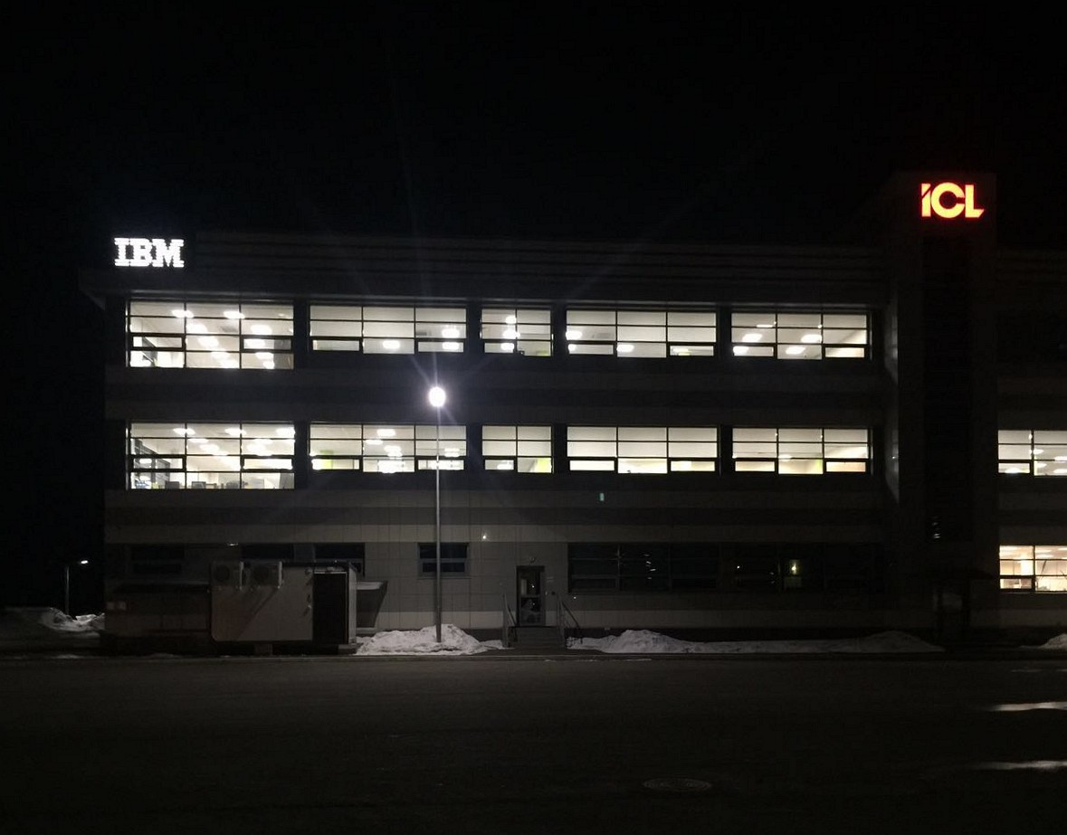 IBM in Kazan